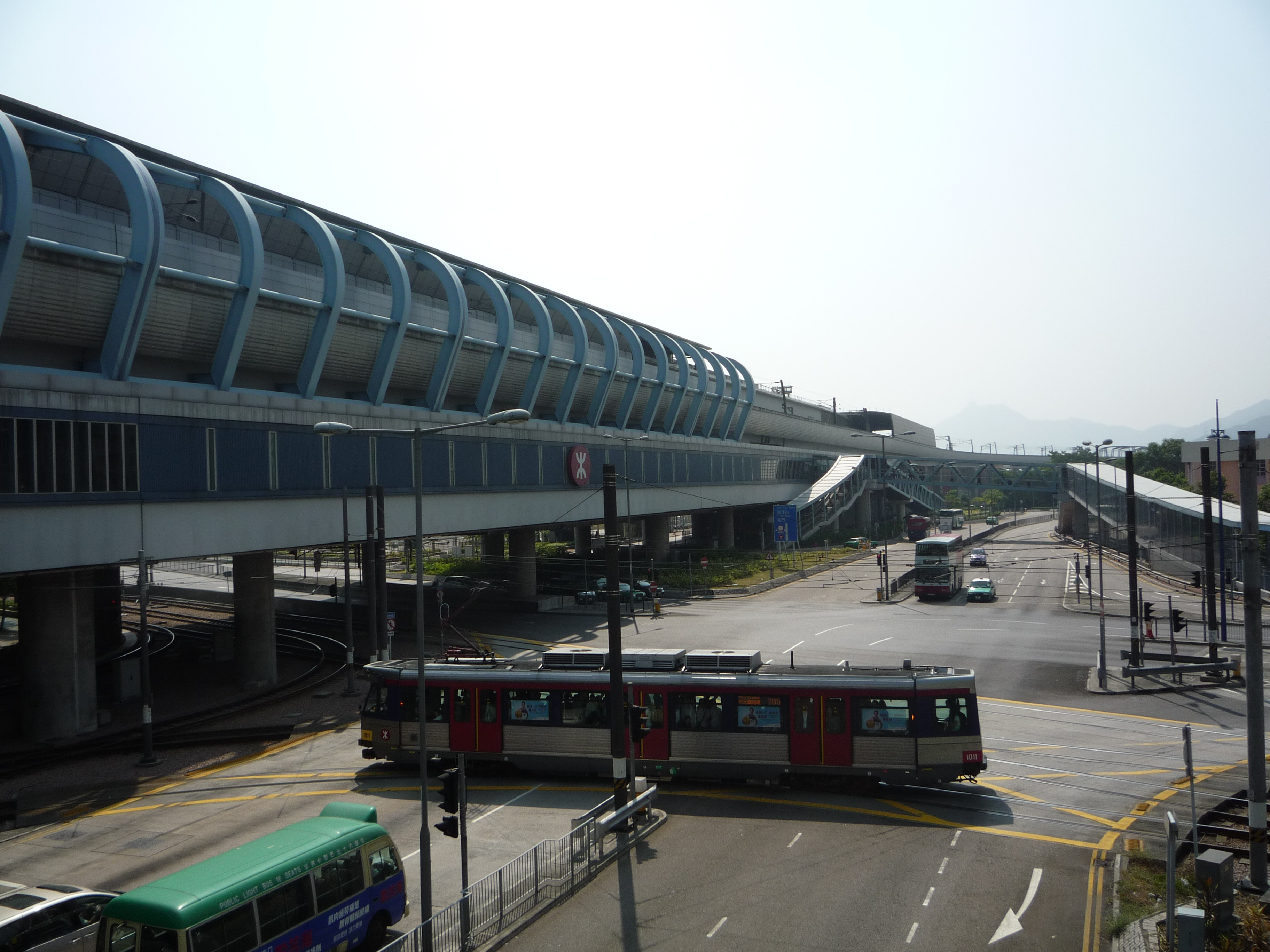 Appearance of MTR Tin Shui Wai Station